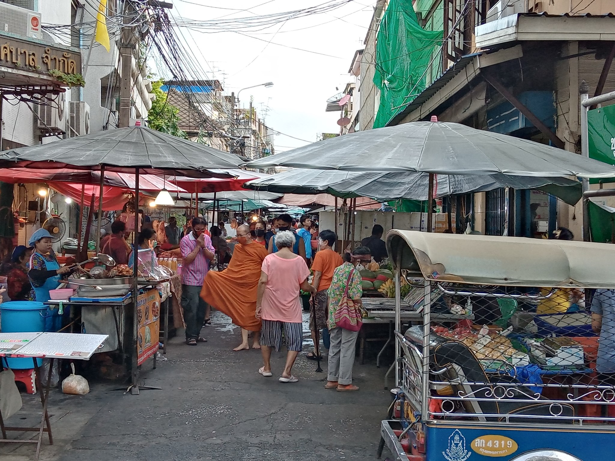 Atmosphere of Trok Mo Market, BKK.